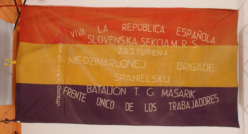 Flag of the Masaryk Battalion (3rd of the CXXIX International Brigade). Spanish Republican Army.